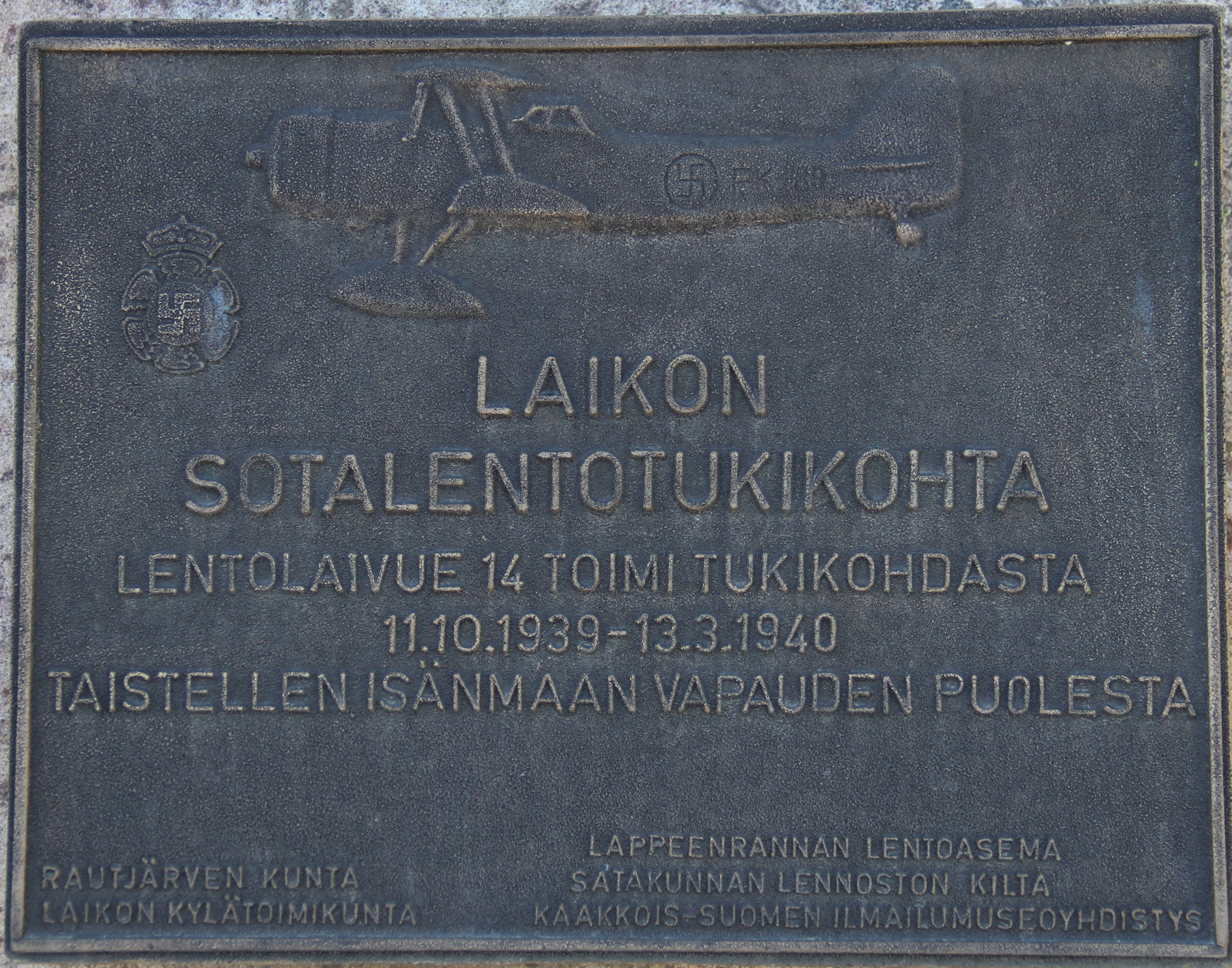 Laikko military air base memorial, Laikko, Rautjärvi, Finland. - Plaque.